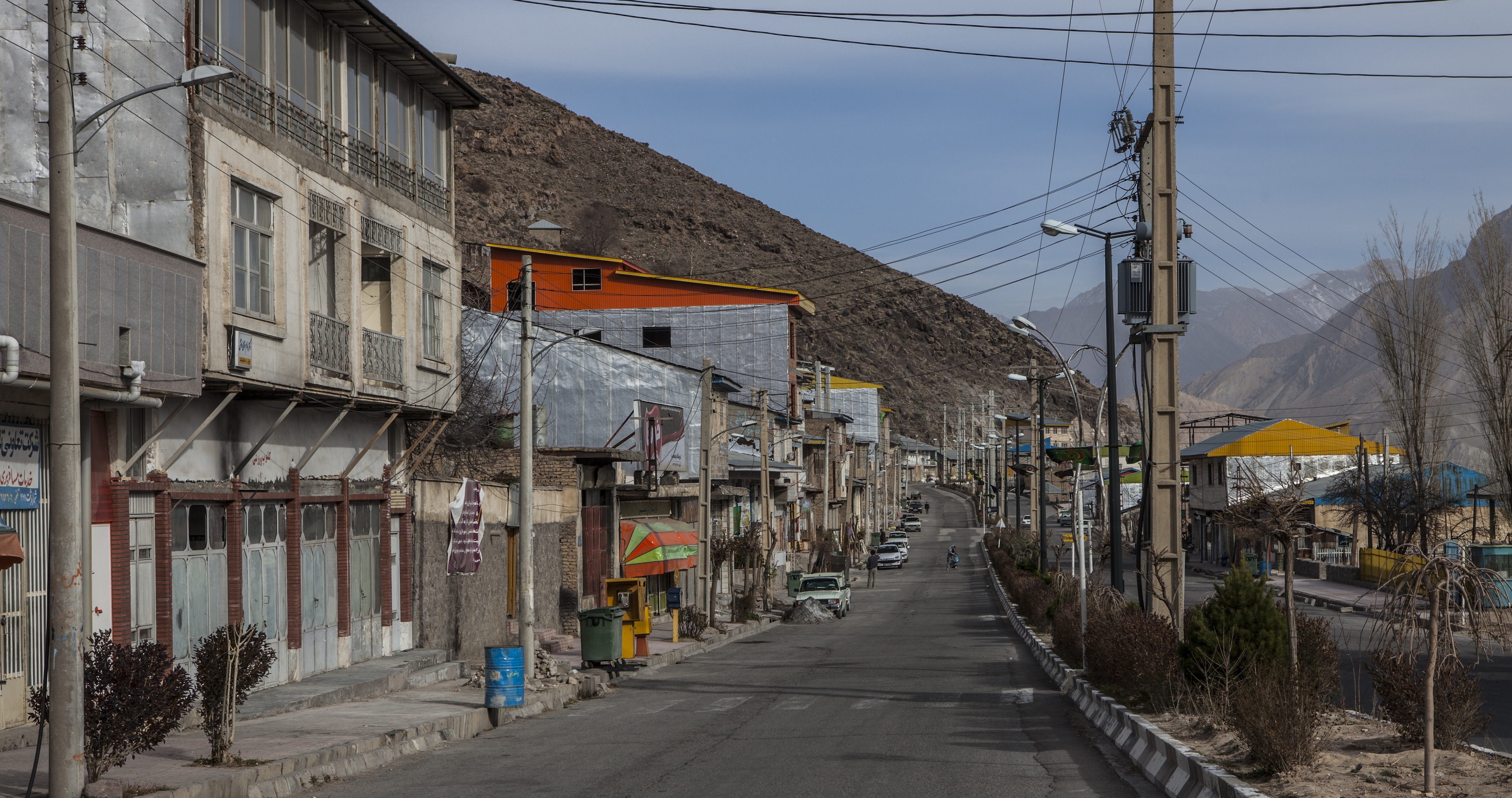 Damavand mountain, Reyneh village